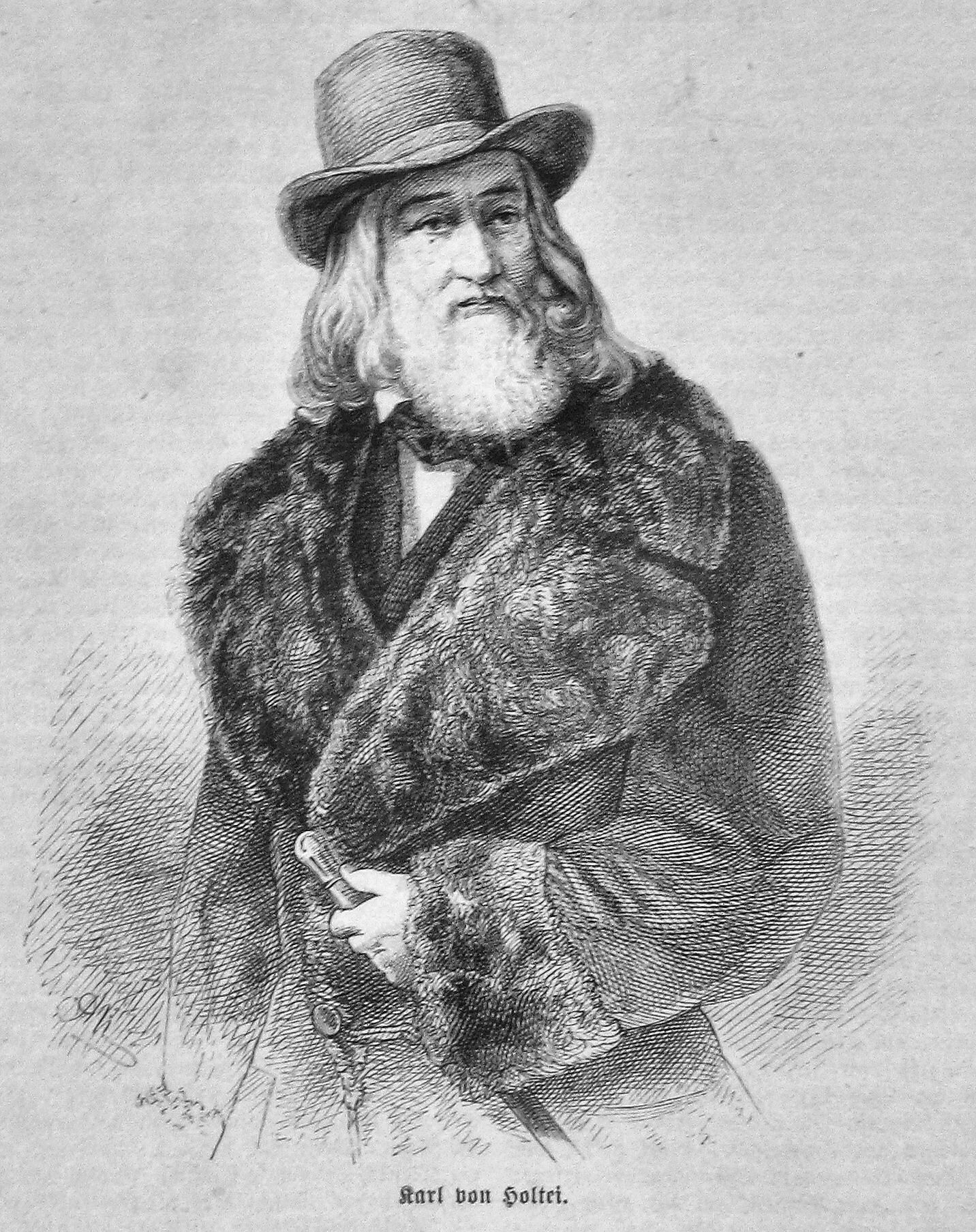 caption: "Karl von Holtei."